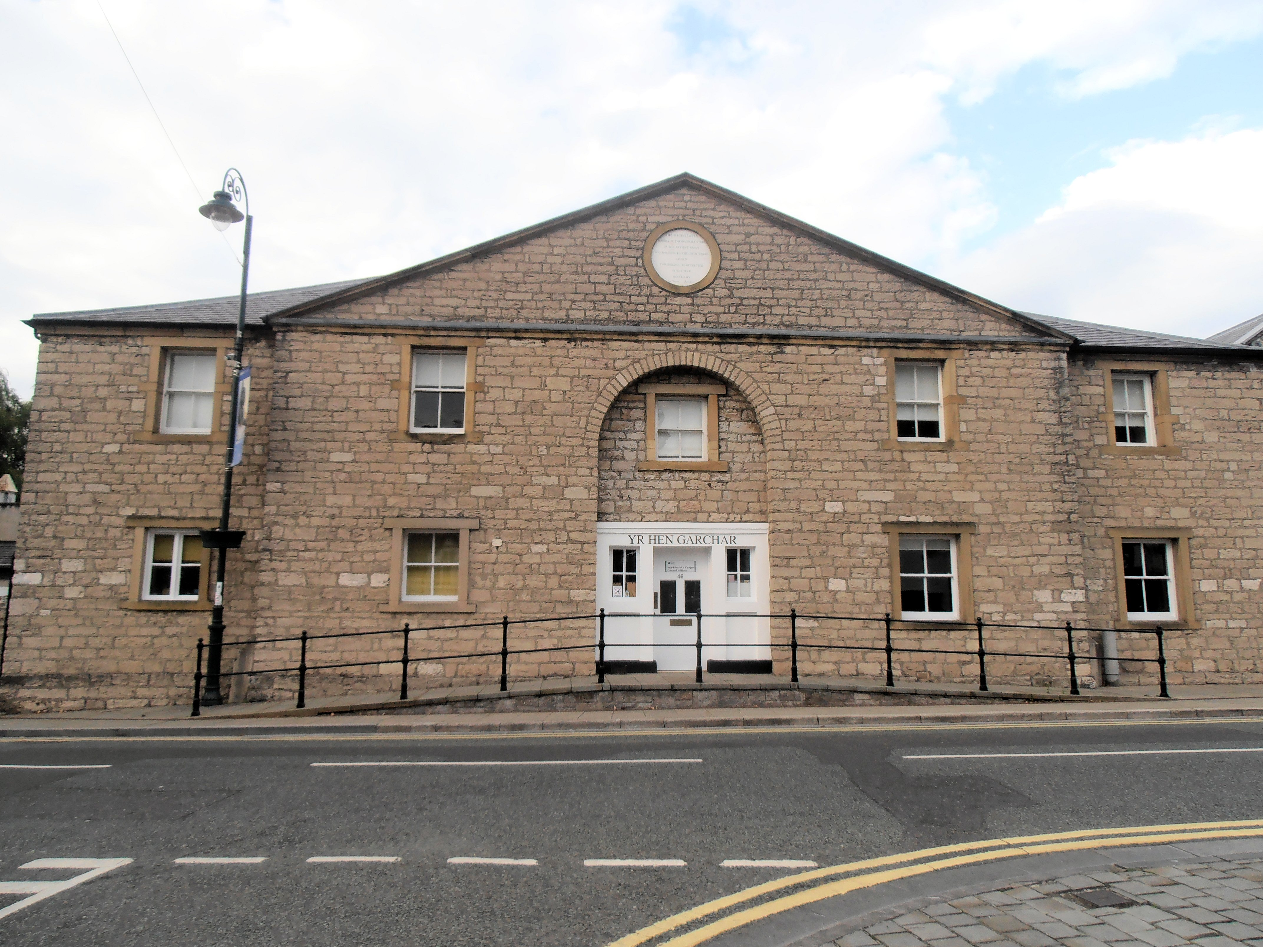 Ruthin Gaol, Ruthin, Denbighshire. Grade 2* lsied building.